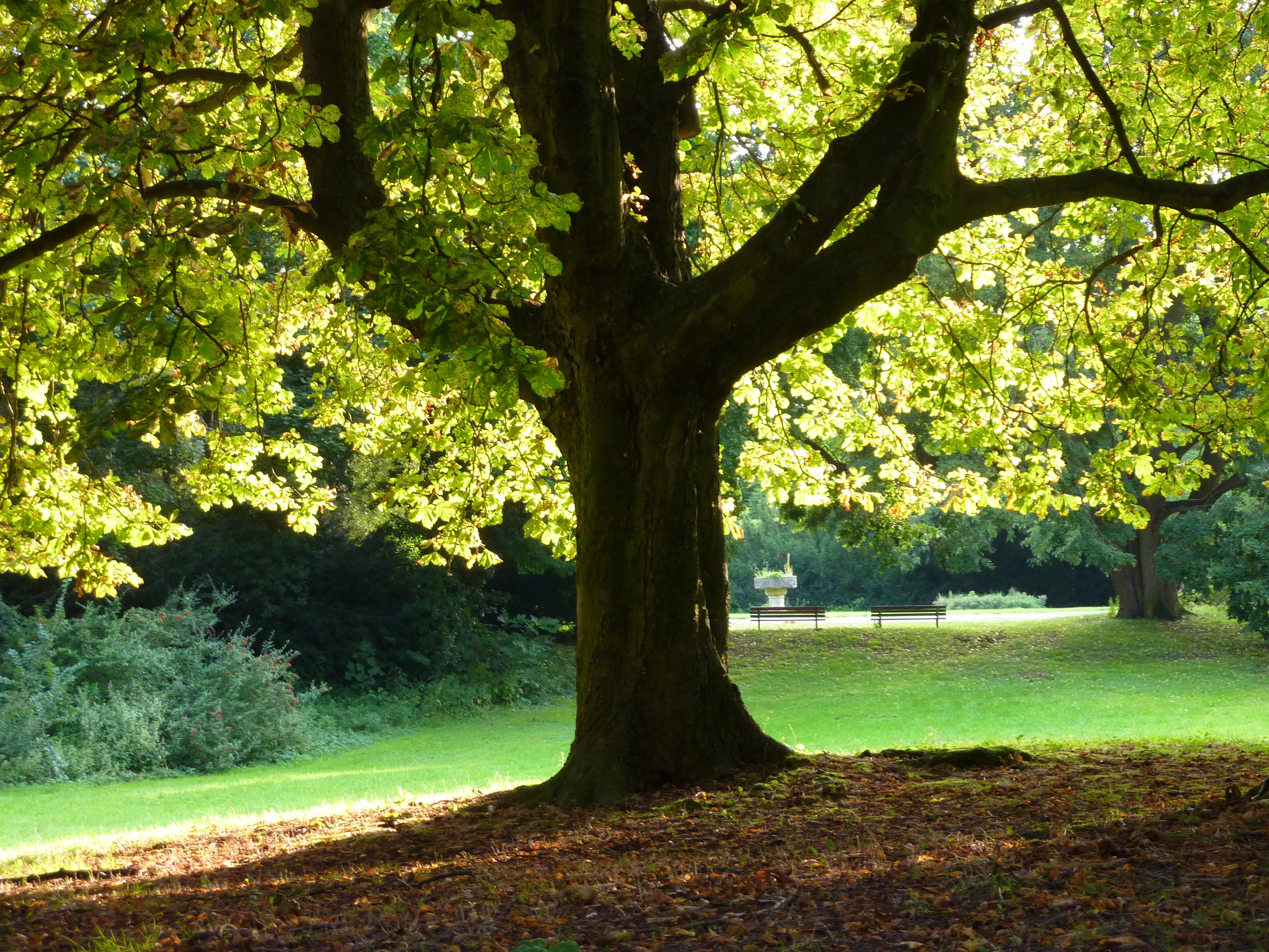 Frankfurt/M., Germany: Horse-chestnut tree in Grüneburgpark; in the background the place of the former Schloss Grüneburg, mansion or country house of the Rothschild family, built in 1845, destroyed in a bombing raid in 1944